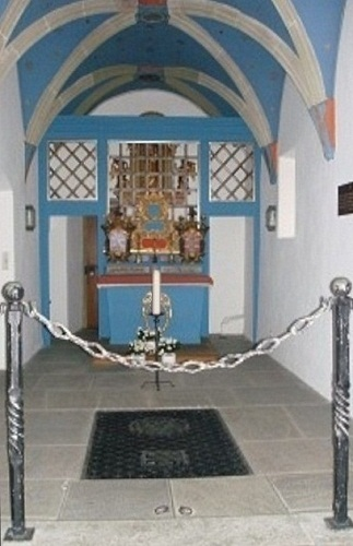 Muri - Loreto chapel - Habsburg burial vault (total)